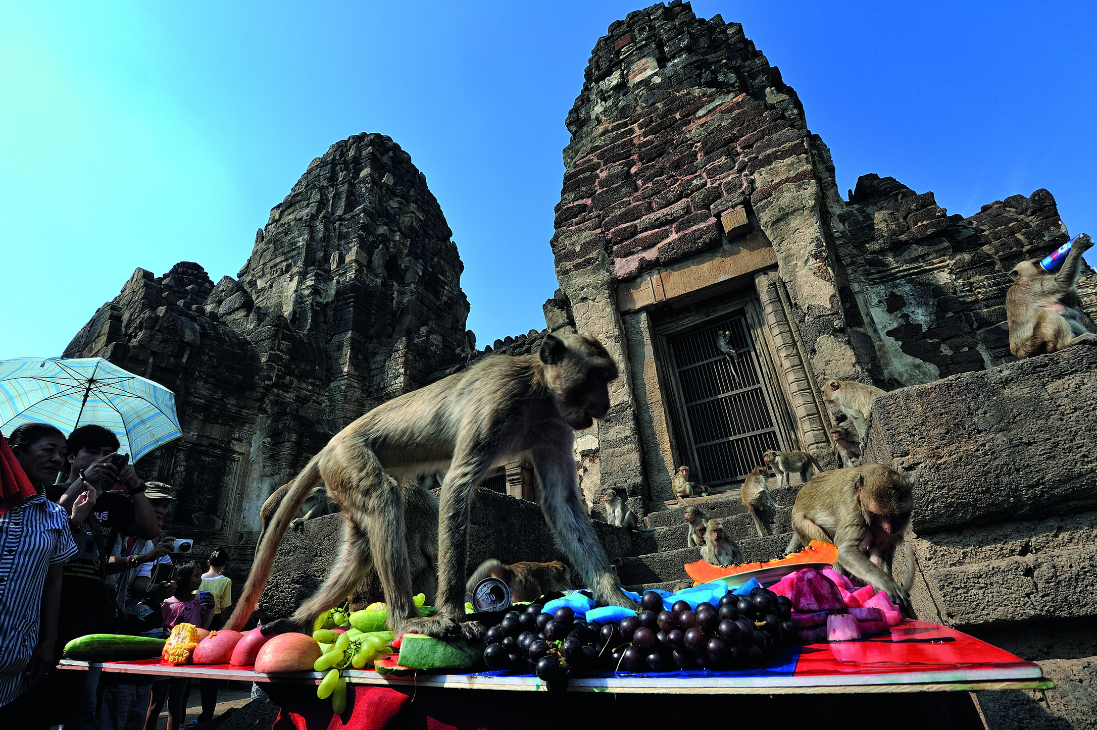 Phra Prang Sam Yot is one of the notable ancient and archaeological sites in Lopburi. Located in Tha Hin subdistrict, Muang Lopbiri district, it was built in the reign of King Jayavarman VII to serve as a Vajrayana Buddhistsitein Lavo Kingdom or ancient Lopburi. The structure comprises three Khmer-style laterite prangs linked to one another. The structure was constructed with layers of laterite and adorned with stucco decorations. Phra Prang Sam Yot was built to be a center of Buddhist place for Vajrayana, Mahayana doctrine in the era that the Khmer governed Lawoe or Lopburi. The center one houses the image of the Buddha, sitting under the canopy of serpents’ heads. The prang in the north houses an image of Bodhisattya Awalokitesuan and the prang in the south houses an image of “Prachya Paramita”, wife of Bodhisattya Awalokitesuan. At the front towards the east is located the wihan that houses a large Buddha statue in subduing mara position dating back to the early Ayutthaya Kingdom in 20th Buddhist century.